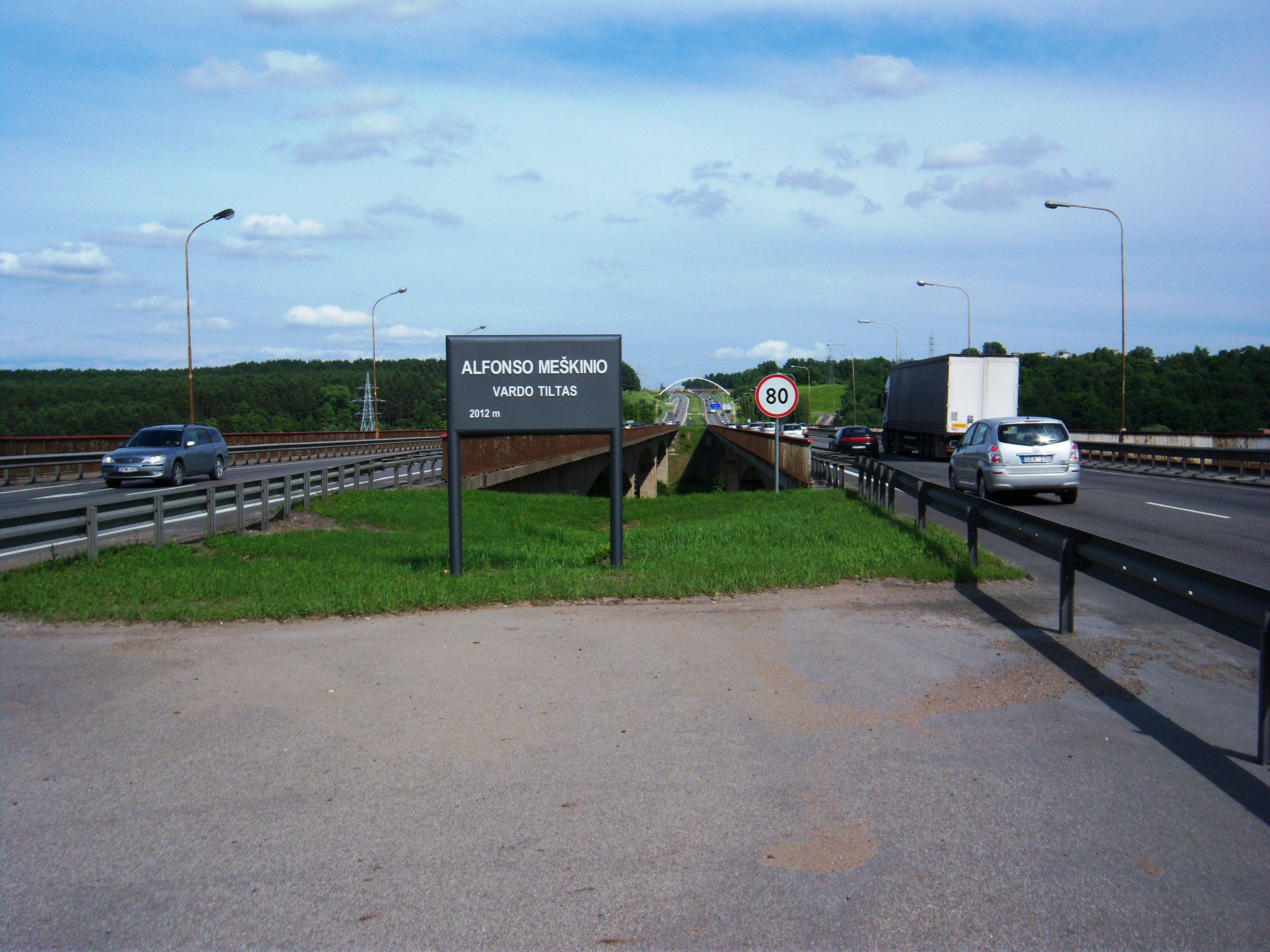 Alfonsas Meškinis Bridge over the Neris, Kaunas, Lithuania